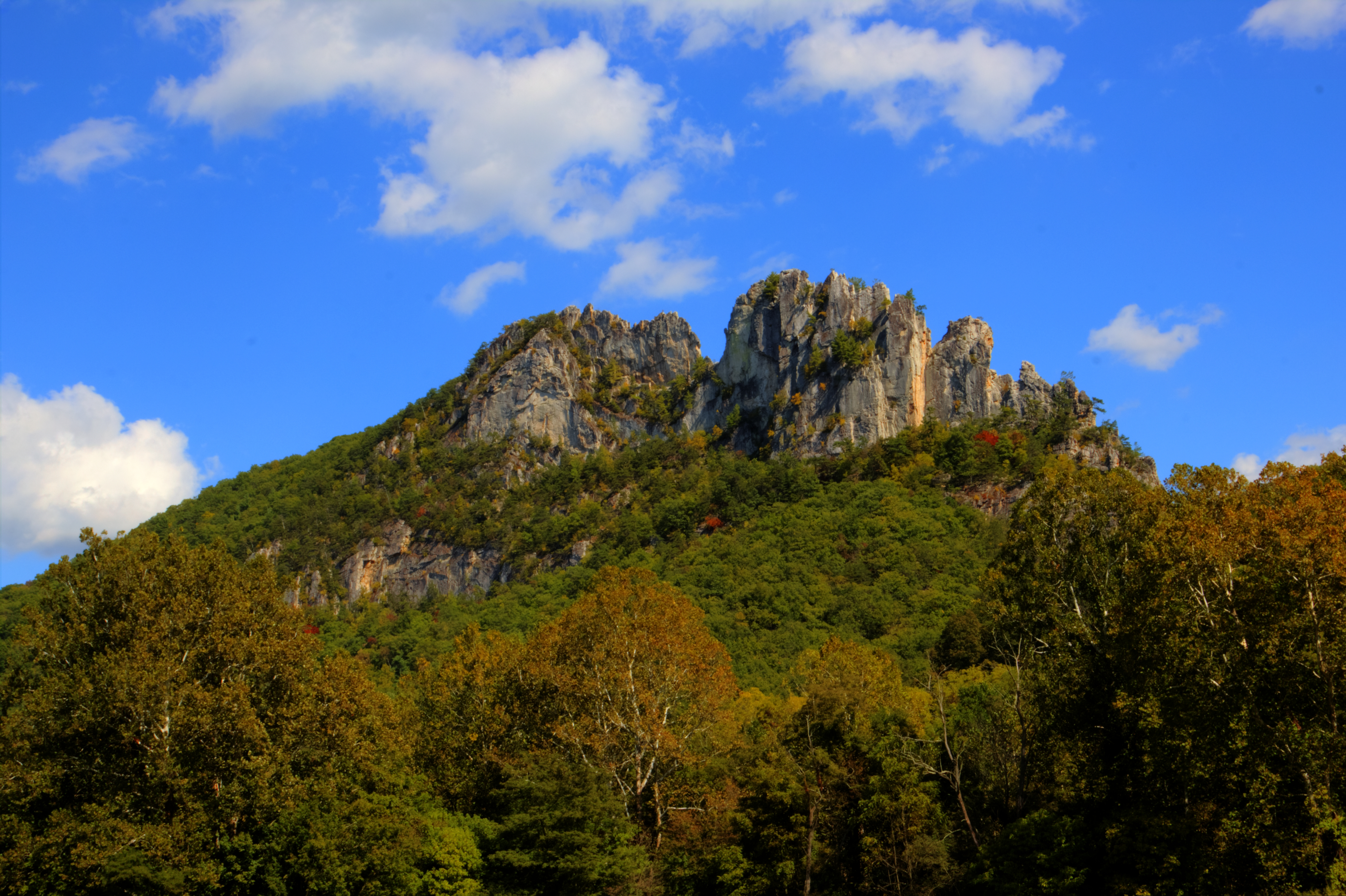 Seneca Rocks, WV in the Autumn of 2013. This image was made by merging 7 different exposures with Photomatrix Pro software